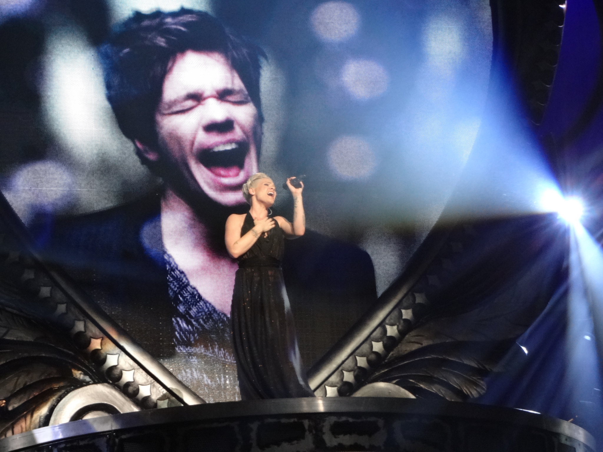 Pink performing "Just Give Me A Reason" at a concert alongside a video of Nate Ruess